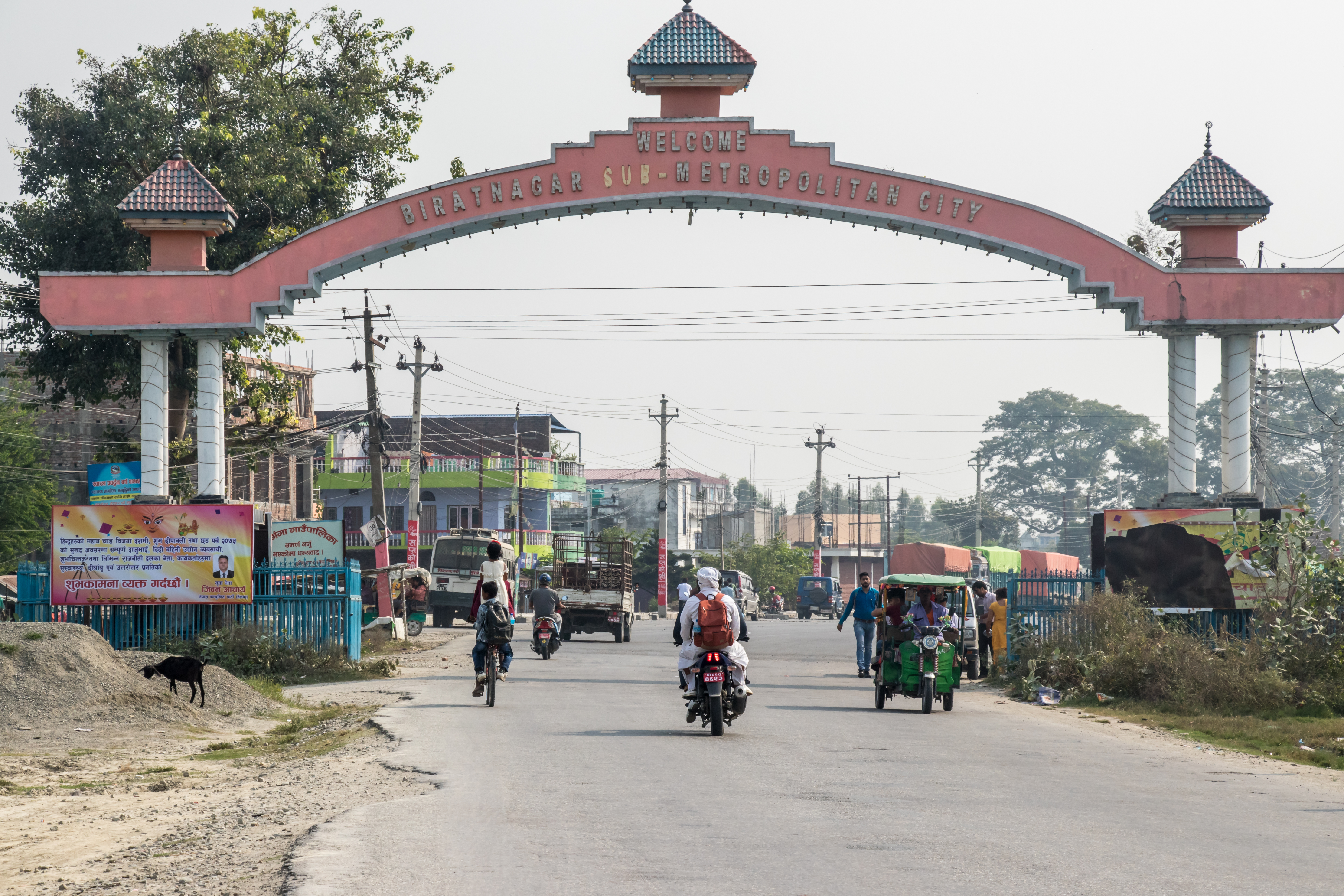 Biratnagar is a metropolitan city and the interim capital of the Province No. 1 of Nepal. It is currently the second most densely populated and the fourth most populous city of Nepal, with a population of 240,000.